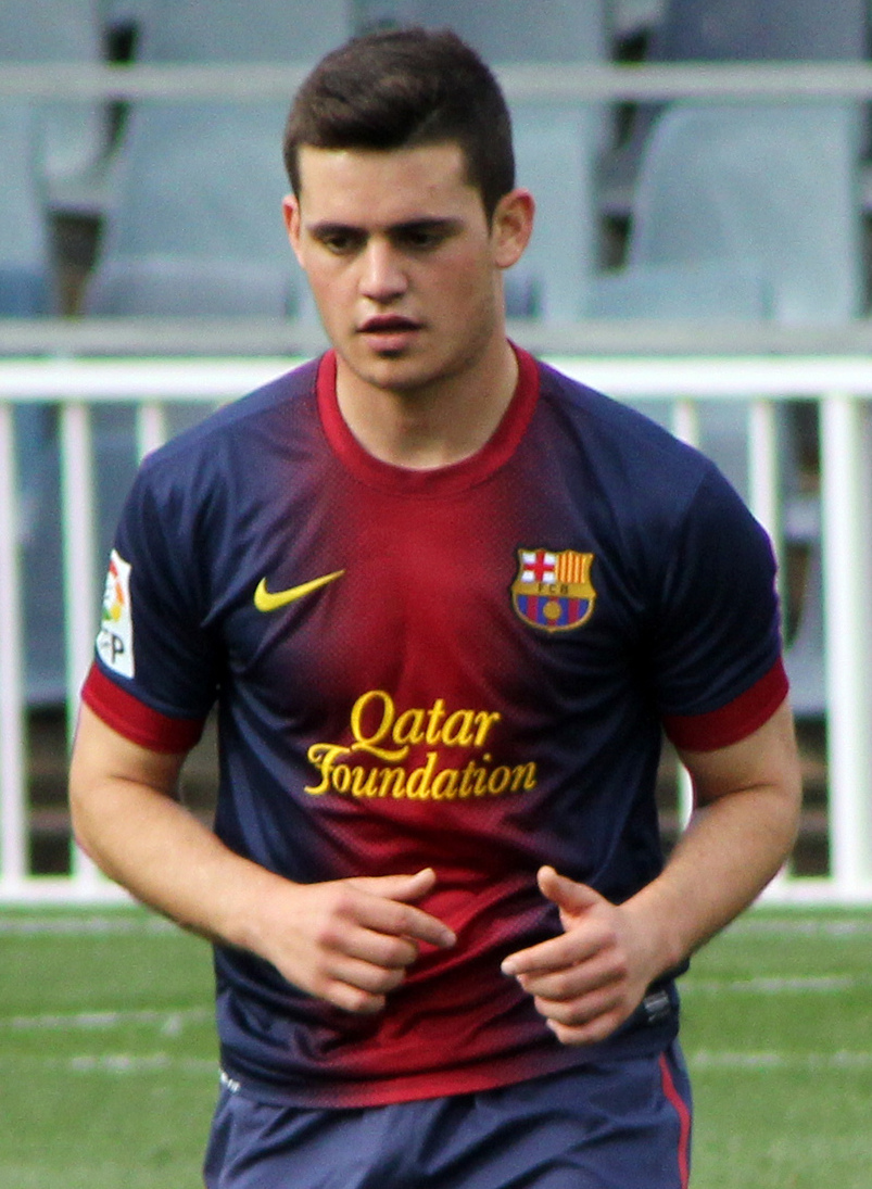 Joan Ángel Román, player of FC Barcelona B.